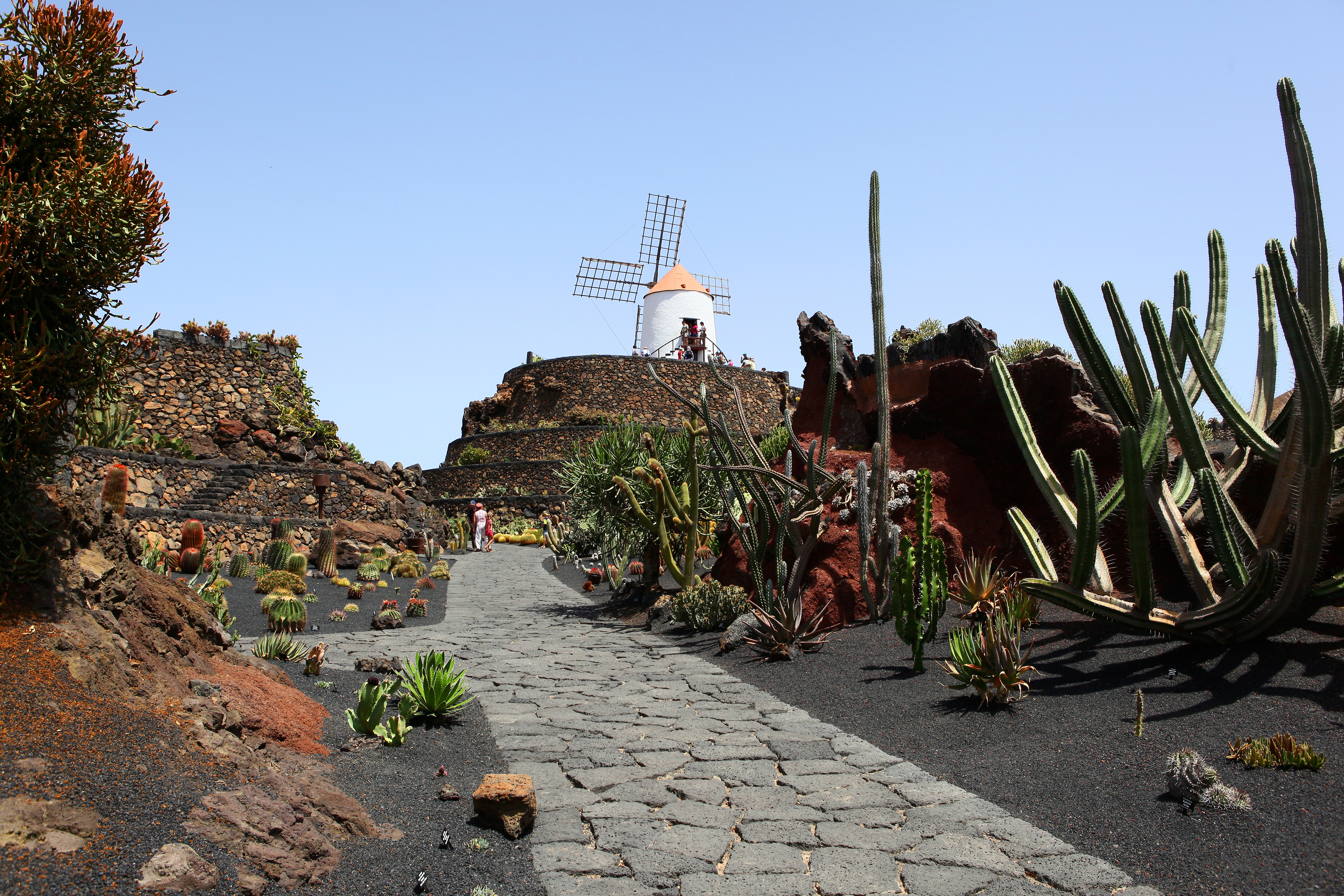 The garden: "Jardín de cactus" creation de Manrique, in Guatiza, Lanzarote.